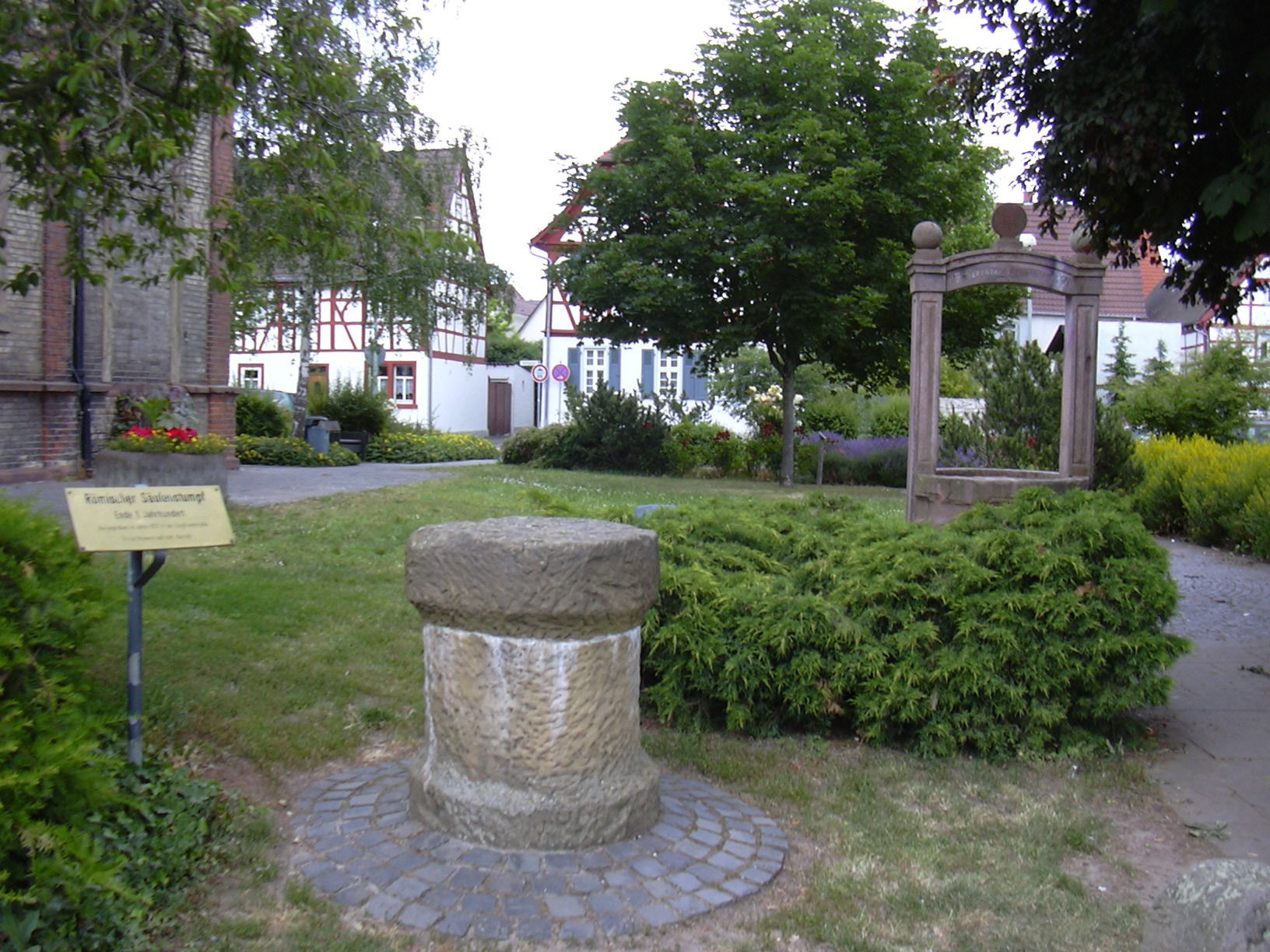 Gernsheim, lower part of Roman column